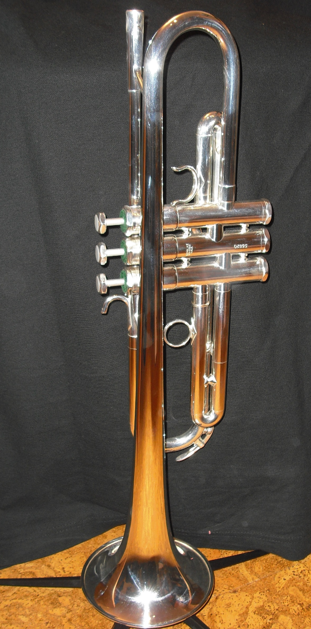 Schilke trumpet modell X3 in silver.